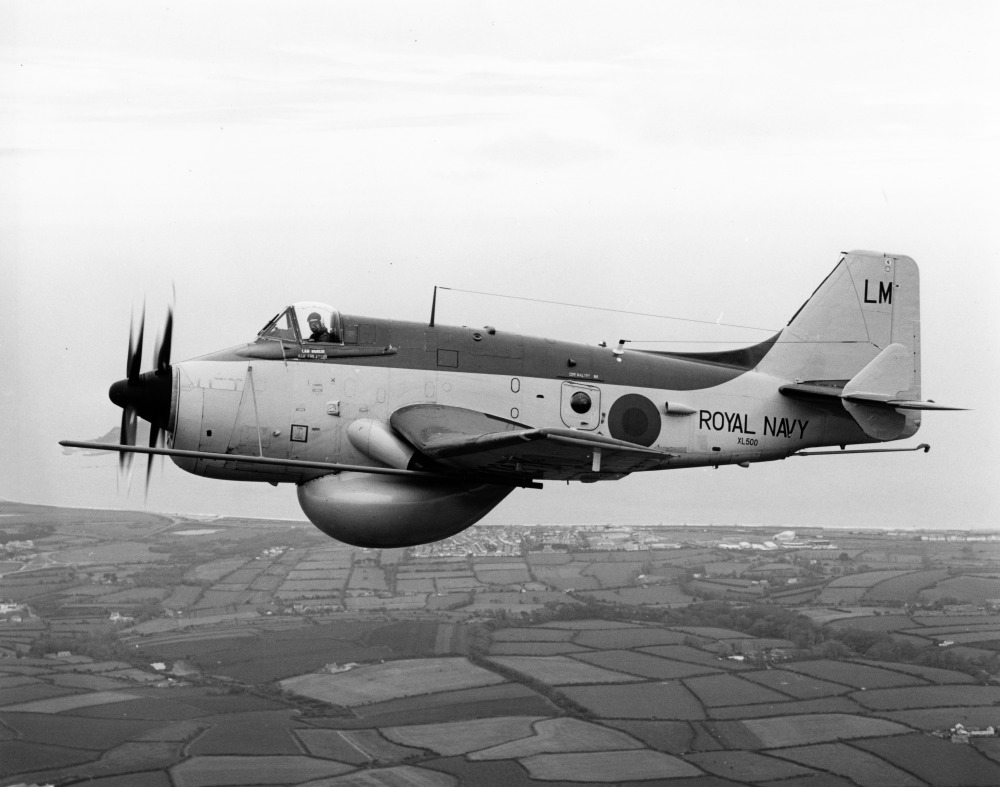 PictionID:42252880 - Title:Fairey Gannet Fairey Gannet AEW.3 XL500 RNAS Culdrose 26Oct83 - Catalog:15_003292 - Filename:15_003292.tif - ---- Image from the Charles Daniels Photo Collection album "English Aircraft"----PLEASE TAG this image with any information you know about it, so that we can permanently store this data with the original image file in our Digital Asset Management System.----SOURCE INSTITUTION: San Diego Air and Space Museum Archive